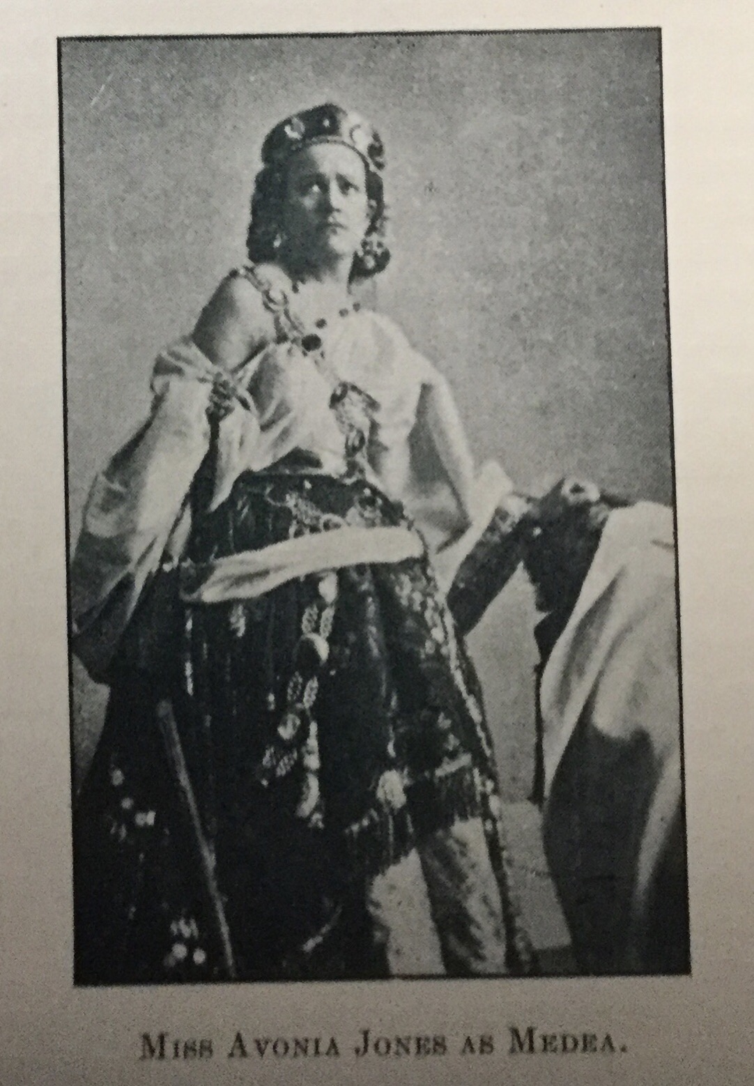 Noted American 19th century actress